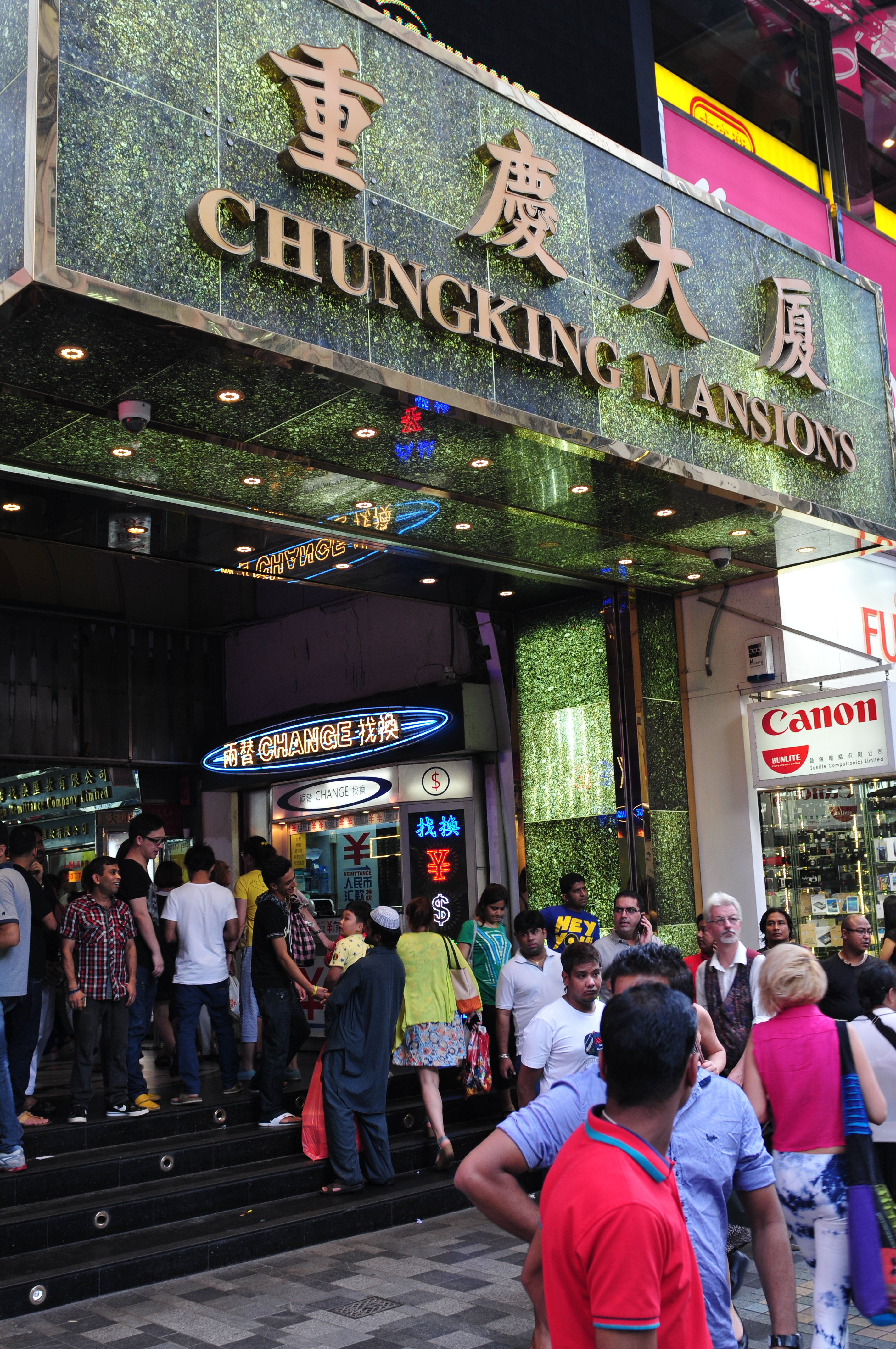 Hong Kong; Entrance to Chungking Mansions